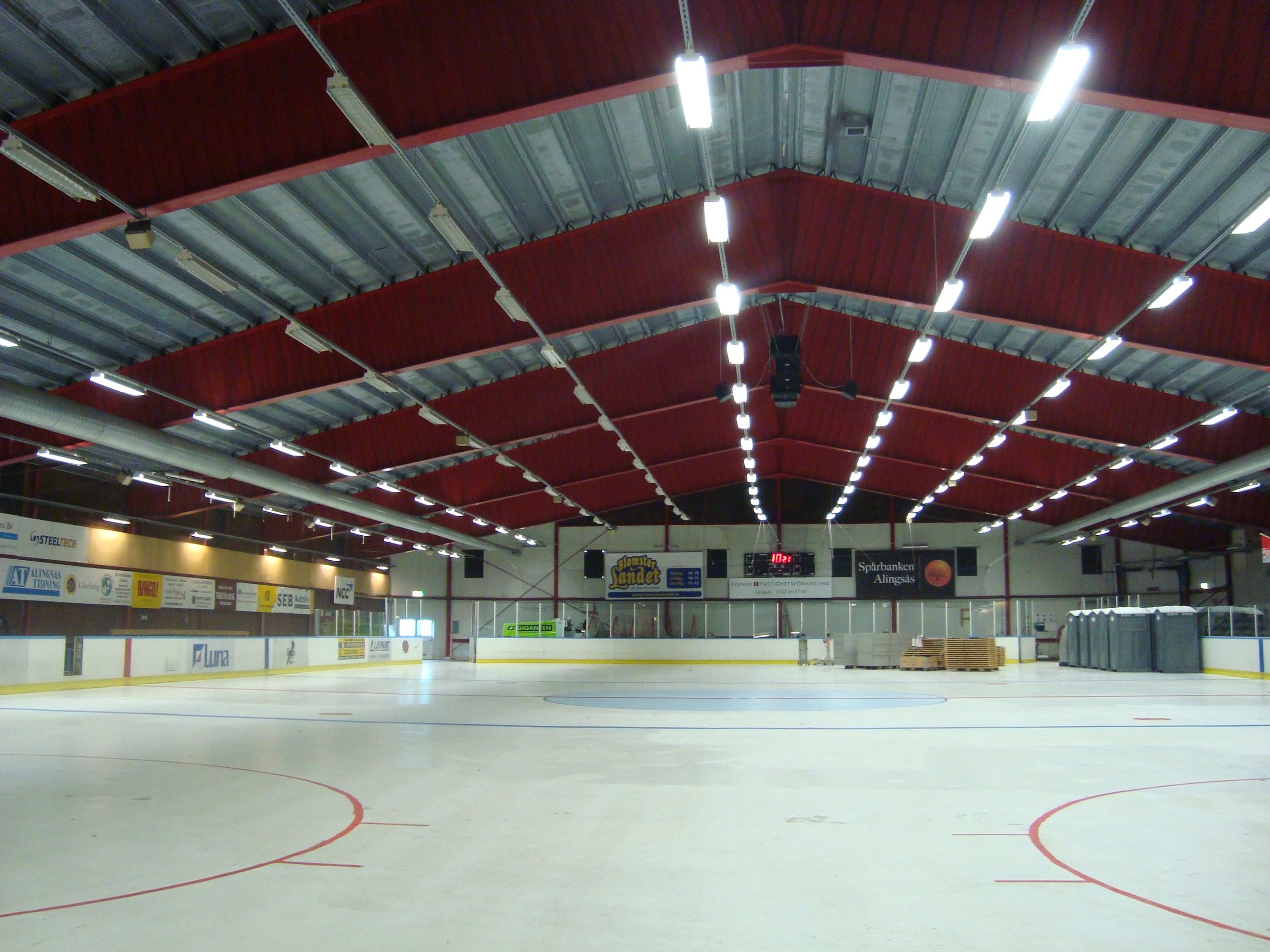 Nolhalla ishall